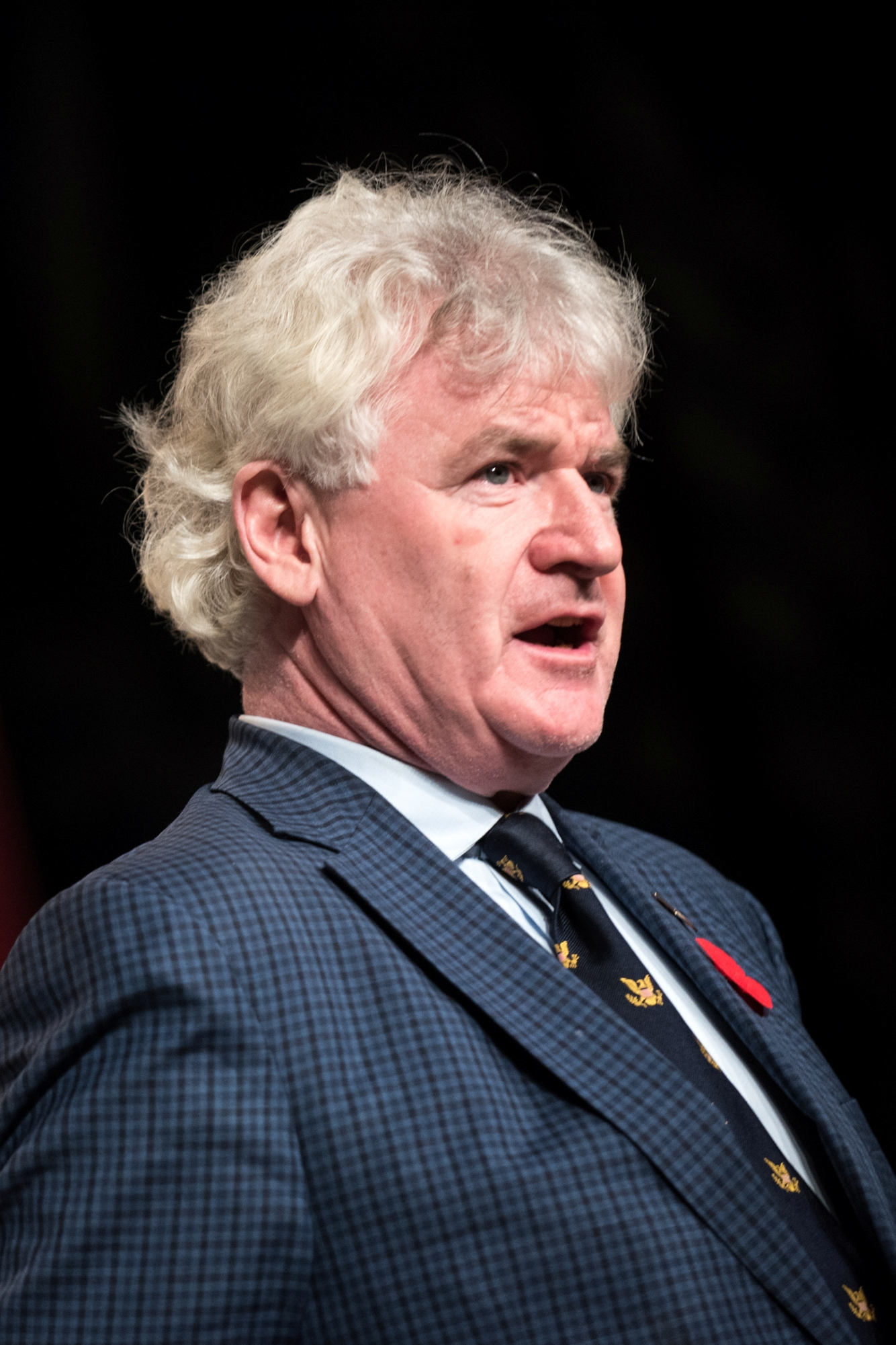 John McDermott, a Canadian-Scottish singer, performs 'God Bless America' during the Semper Fidelis Society Boston U.S. Marine Corps Birthday Luncheon at the Boston Convention & Exhibition Center, Massachusetts, Nov. 13, 2017. (DoD Photo by U.S. Army Sgt. James K. McCann)